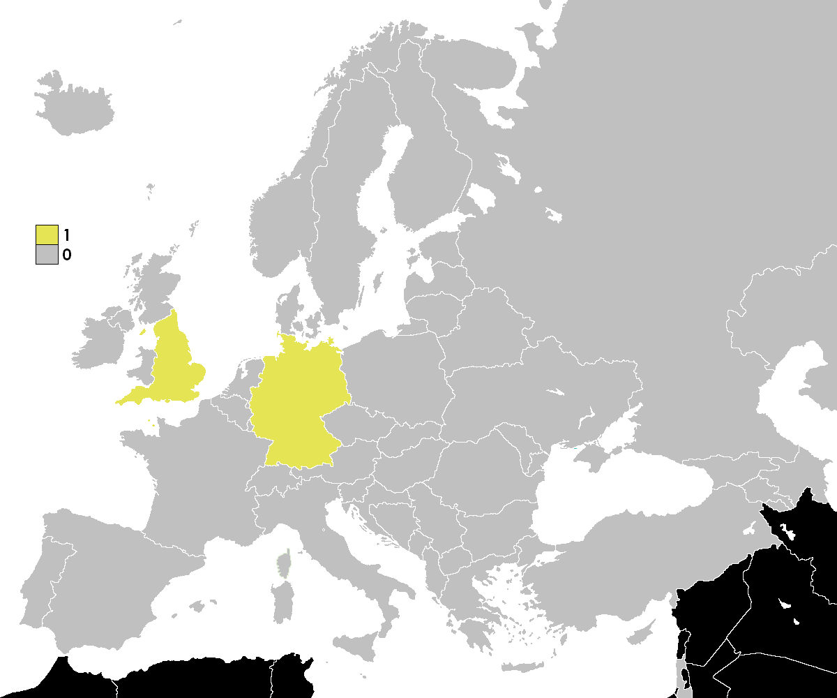 Map of countries which have a finalist at the UEFA Champions League. 1 representative no representative not UEFA member